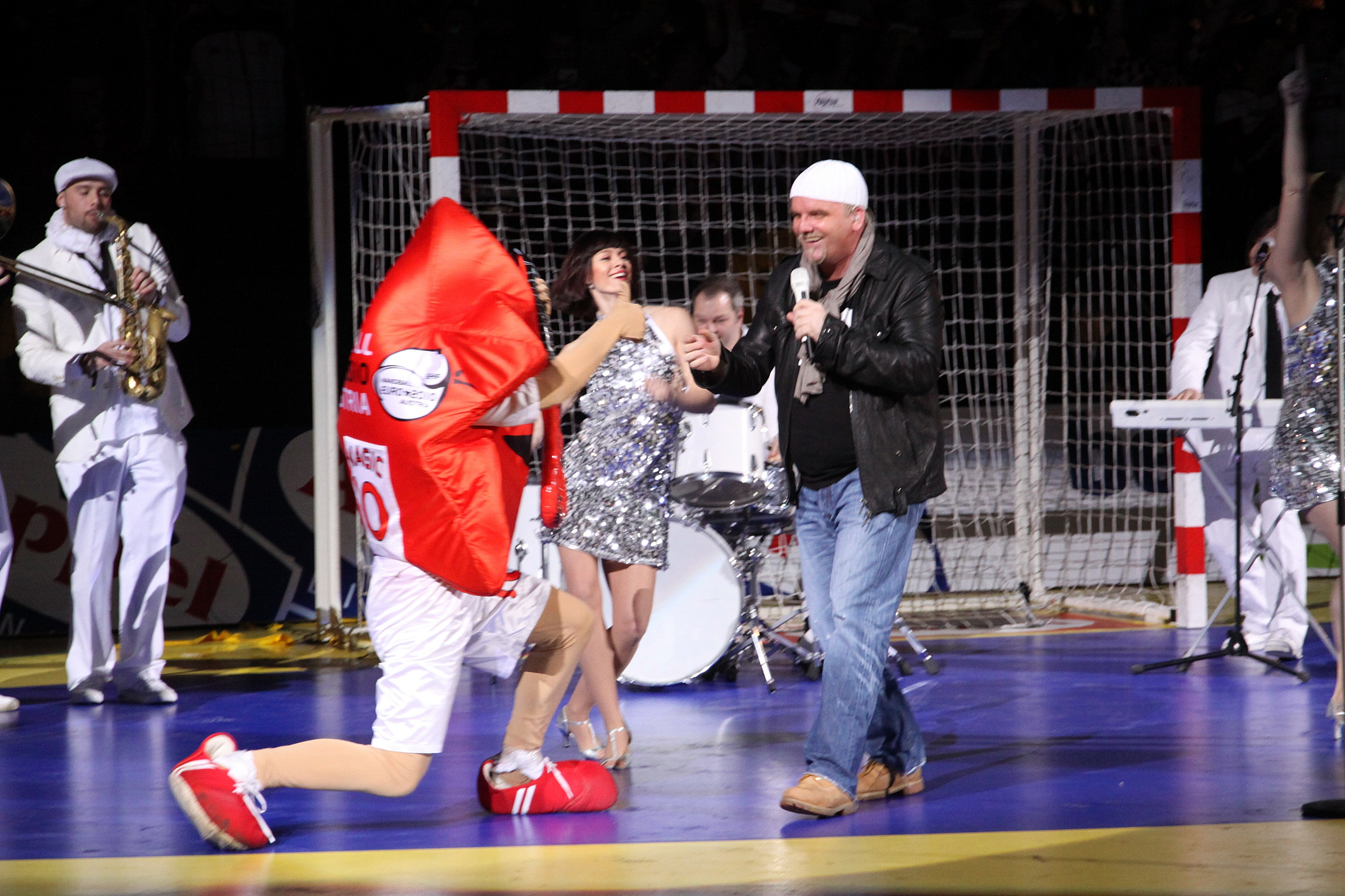 DJ Ötzi presents the official song "Sweet Caroline" of the Euro 2010. On the left side the mascot of the Euro 2010.